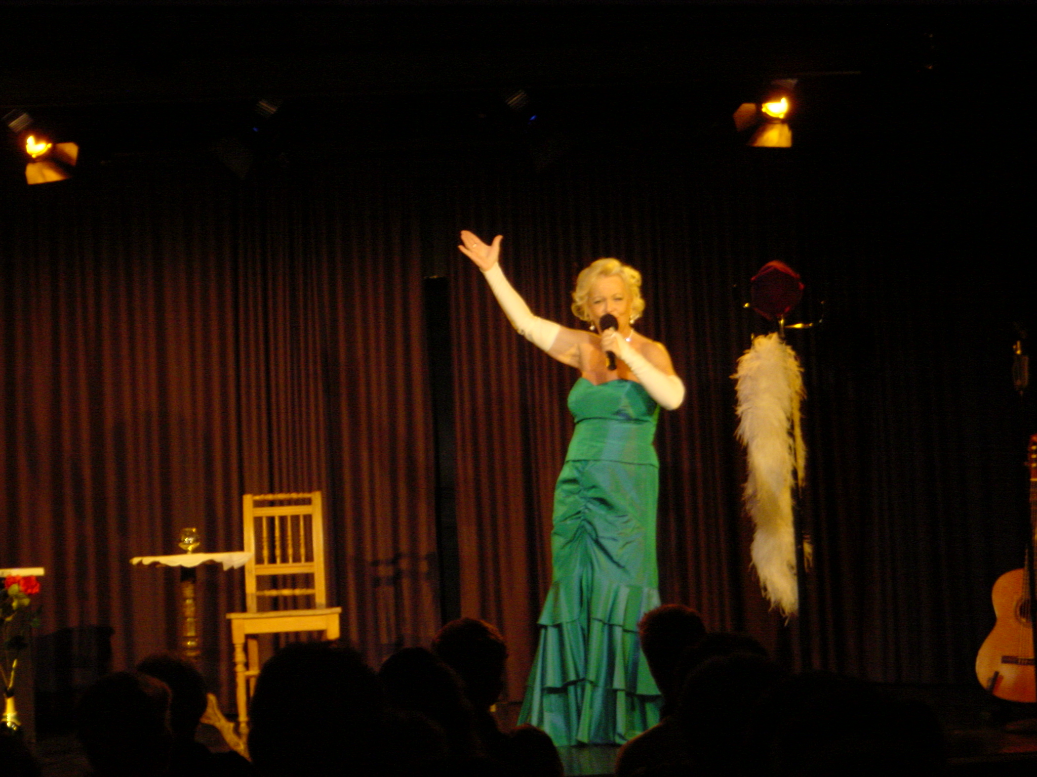 Dorit Gäbler on stage in April 2012 in Pirna, Germany